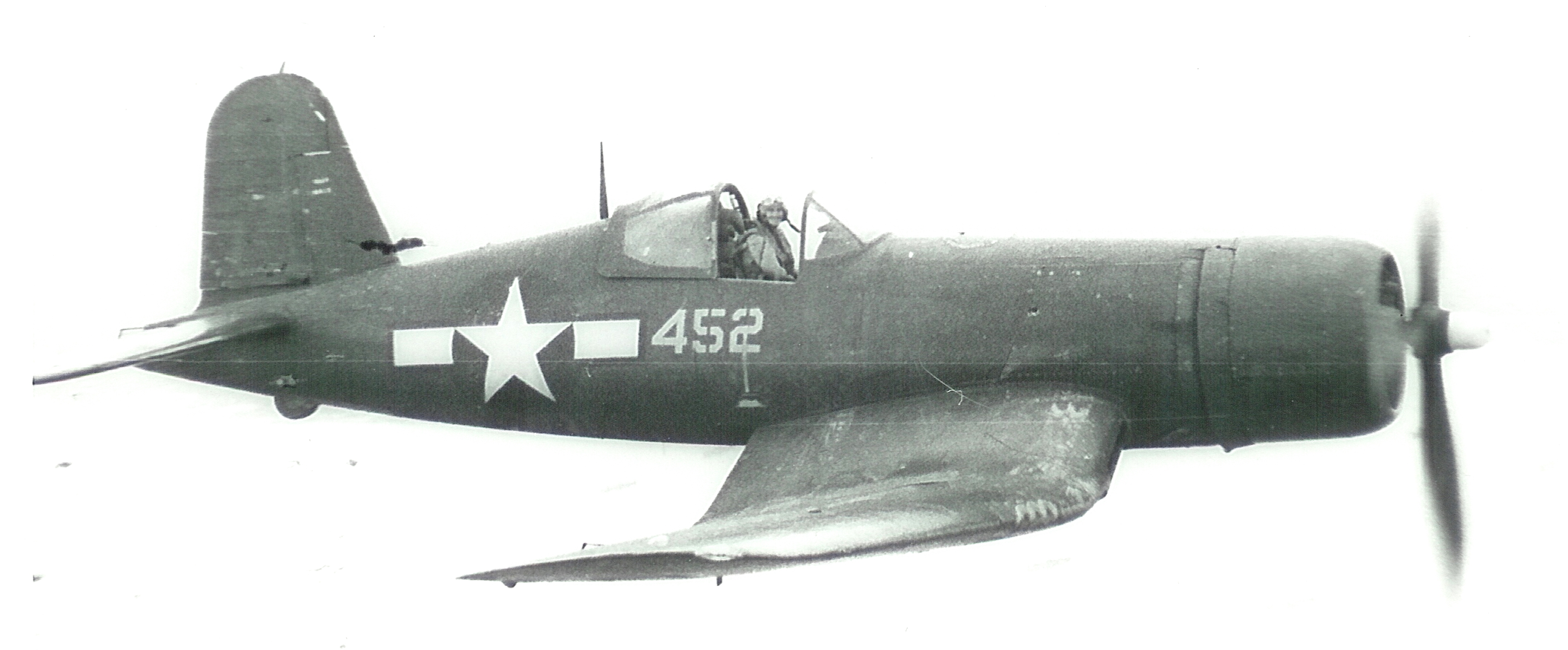 Squadron pilot on mission.